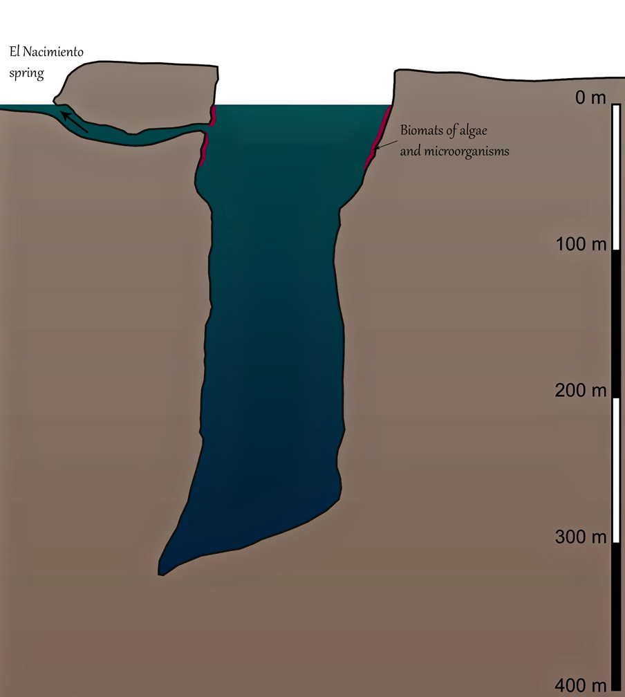 El Zacaton - 339 m deep sinkhole filled with thermal water and located in Tamaulipas state, Mexico. Drawing prepared basing on published data by DEPTX mapping, May 2007 and drawings by M.O.Gary and J.M.Sharp Jr. Feel free to reuse, please, give a link to